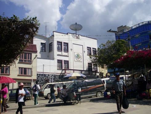 Principal square of Chulumani, Boliva